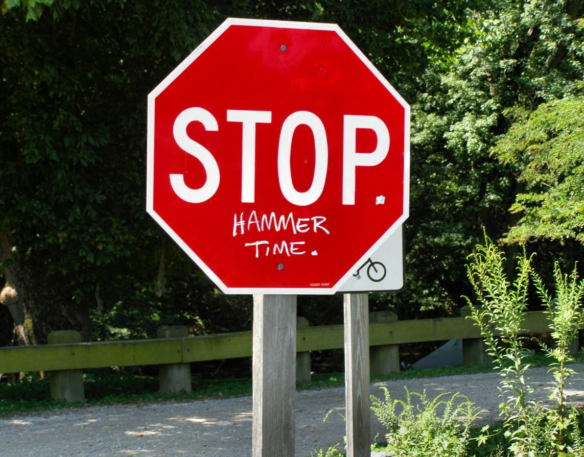 Vandalized stop sign at the Brunswick MARC station in Brunswick Maryland. Digitally edited